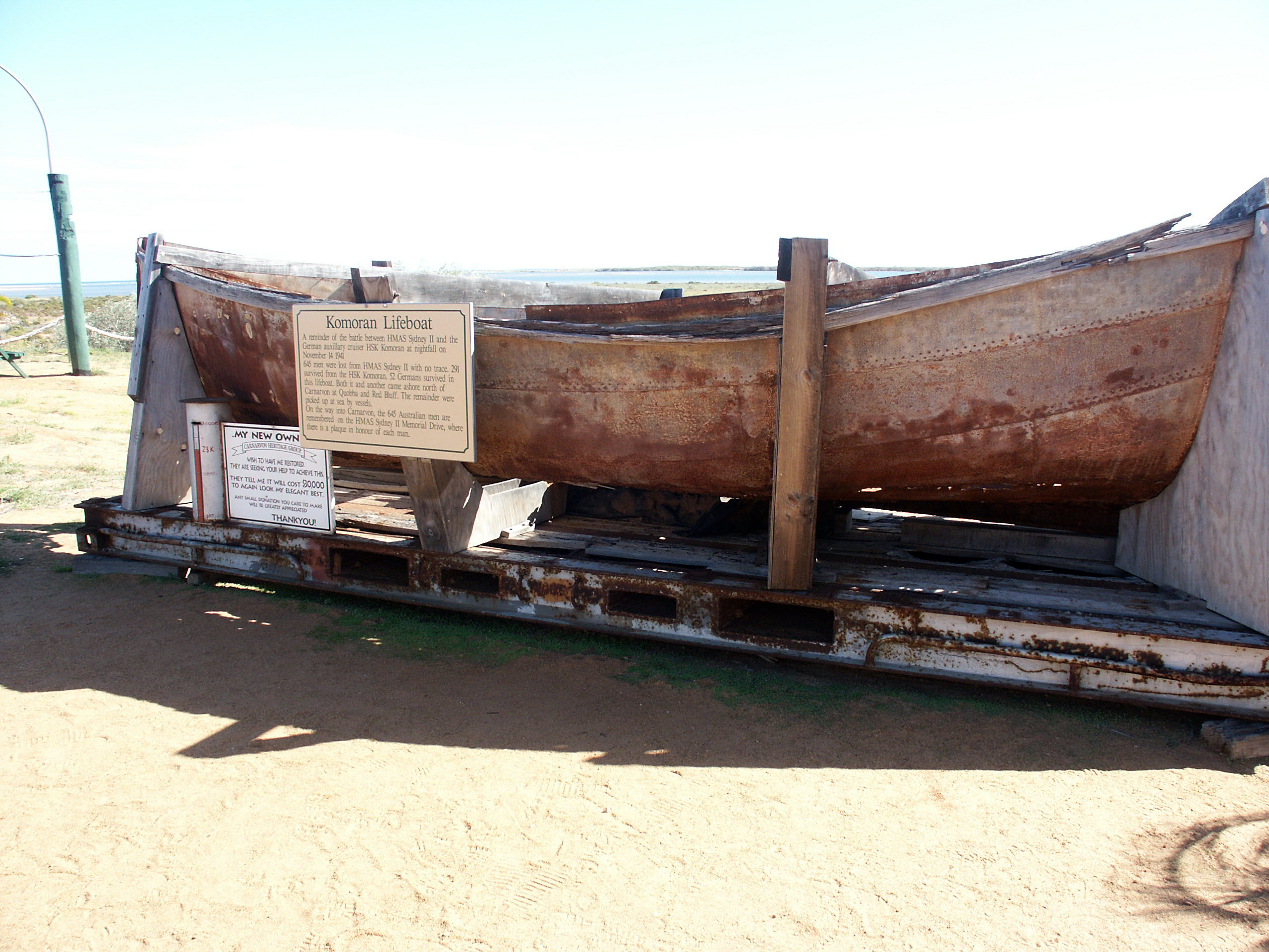 Photo taken (26th Jul 2003) and supplied by Nachoman-au. Kormoran lifeboat, Carnarvon, Western Australia.